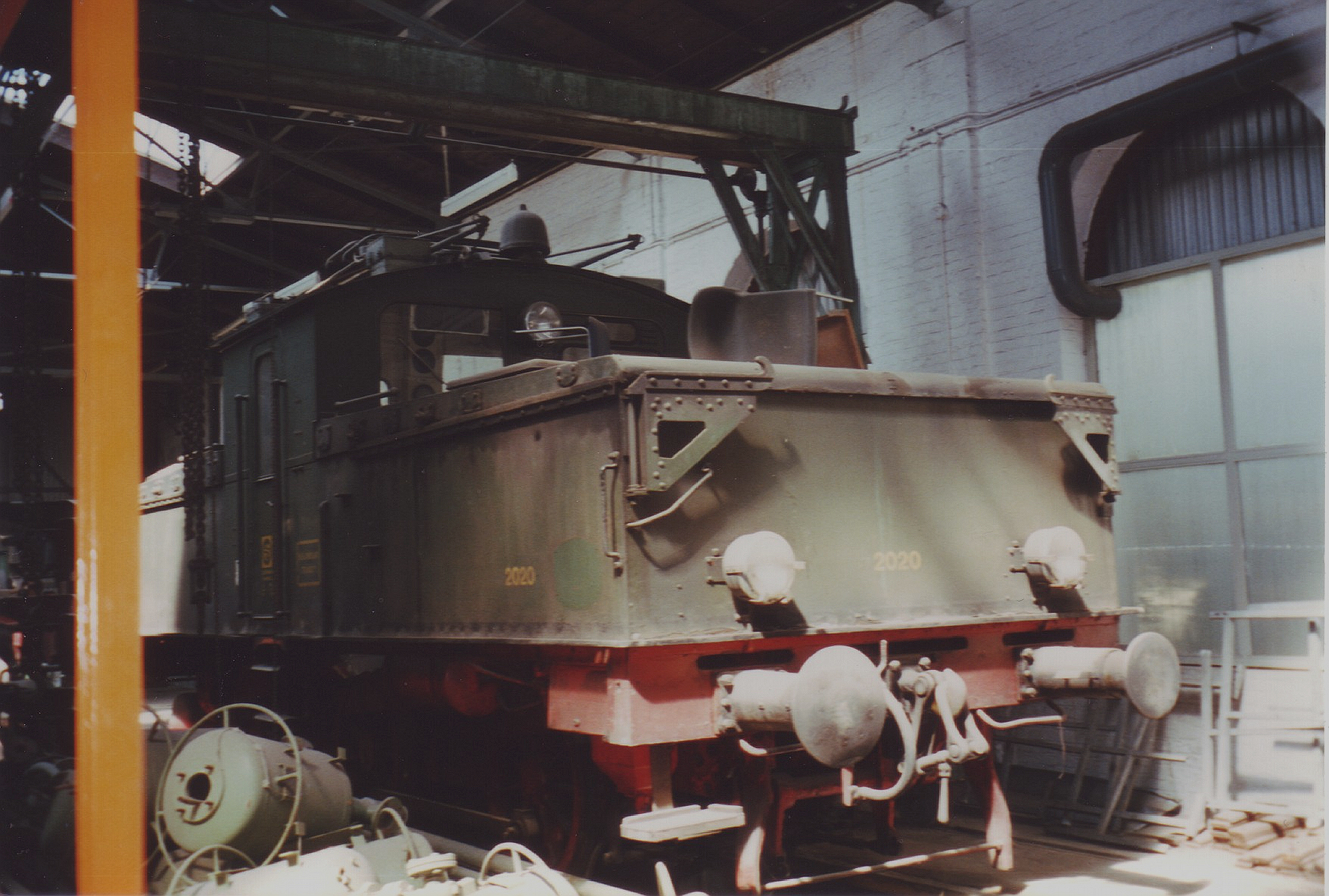 VGF locomotive 2020 of the Verkehrsmuseum Frankfurt am Main in Oberursel-Bommersheim, August 2001